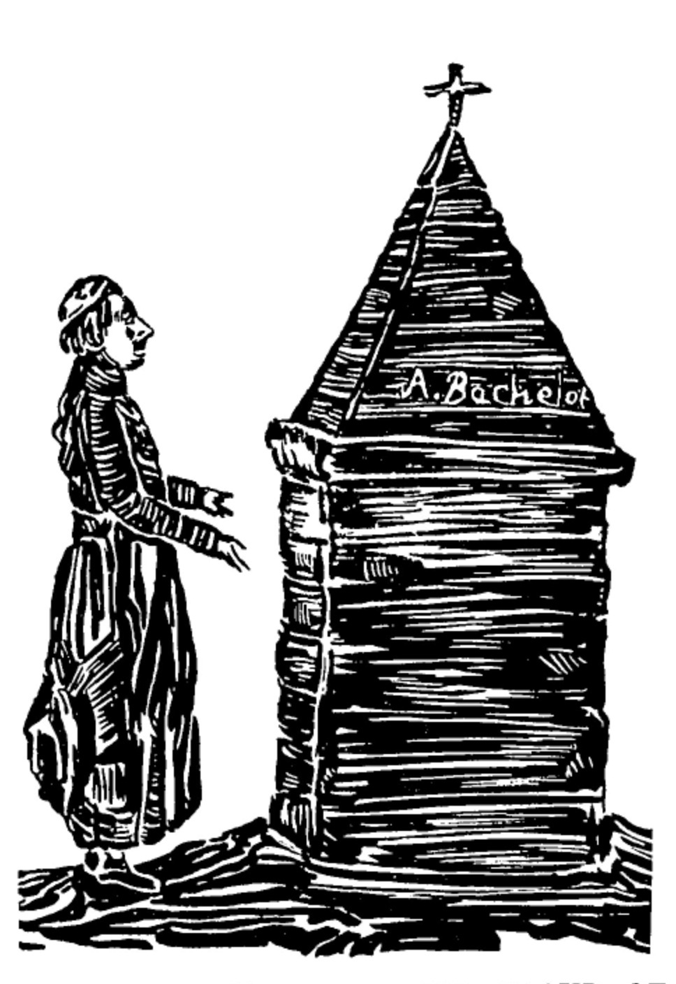 Visit of L'Abbe Maigret to the Tomb of the persecuted Bachelot, Island of Ascension [i.e. Pohnpei ]. Blessed are the dead who die in the Lord. One of four crude woodcuts, which have been attributed to Jules Dudoit. Showing Catholic persecution in Hawaii. Supplement to the Sandwich Islands Mirror containing an Account of the Persecution of Catholics at the Sandwich Islands..